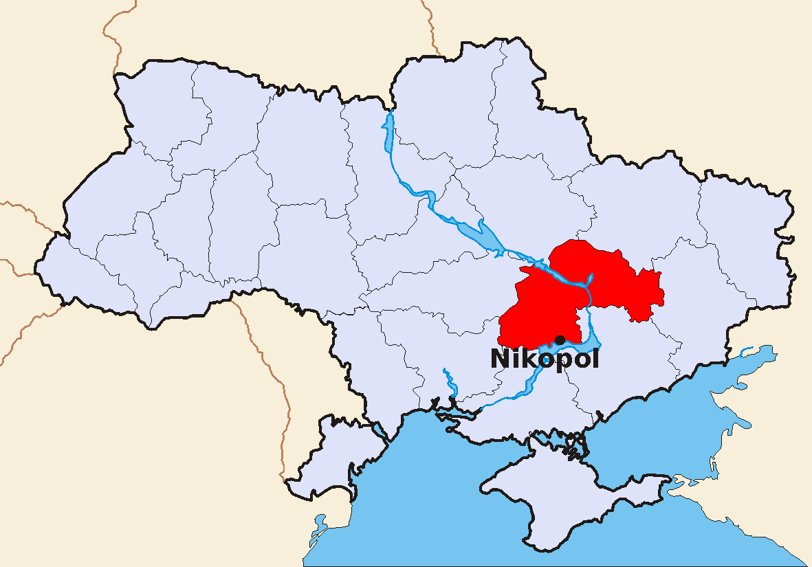 Location of Nikopol, Ukraine